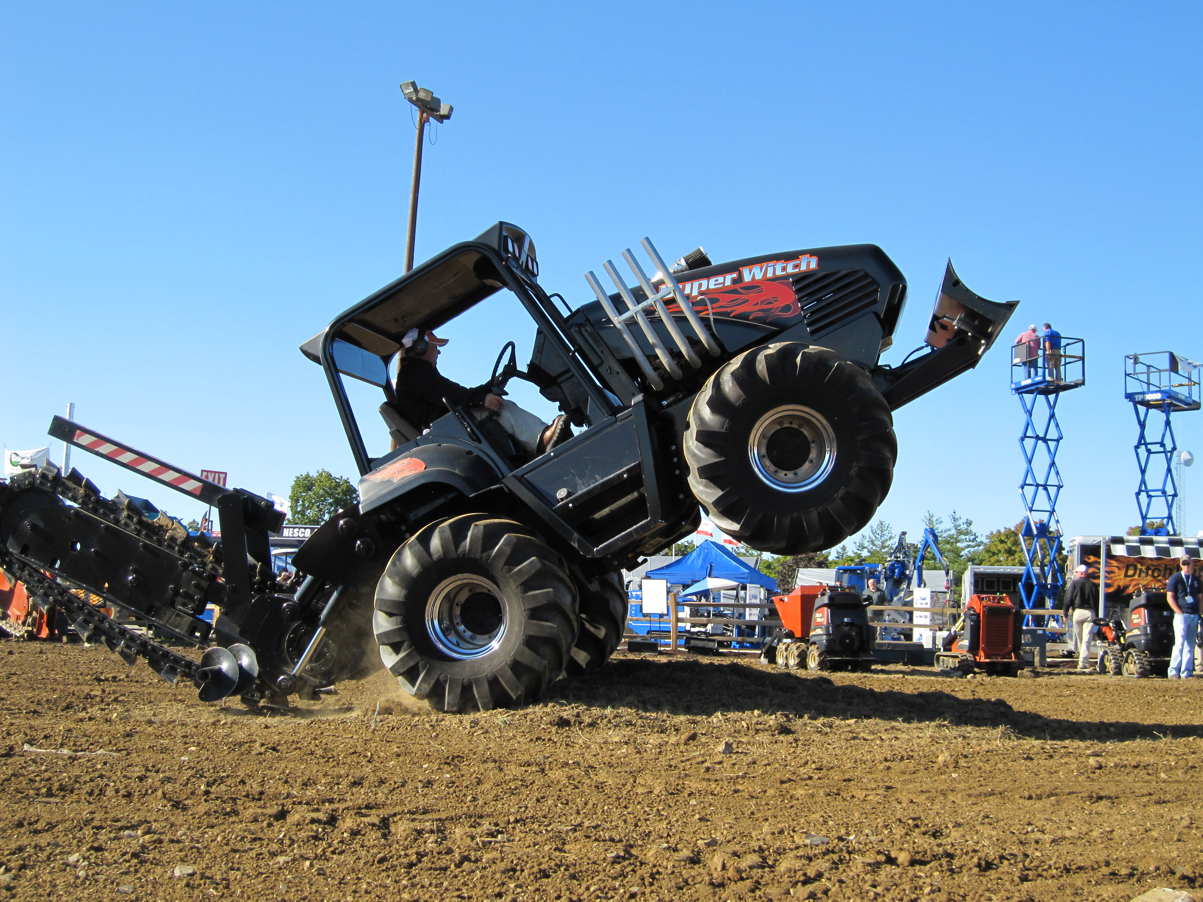 The Ditch Witch Super Witch in action during ICUEE in Louisville, KY on October 7th, 2009.